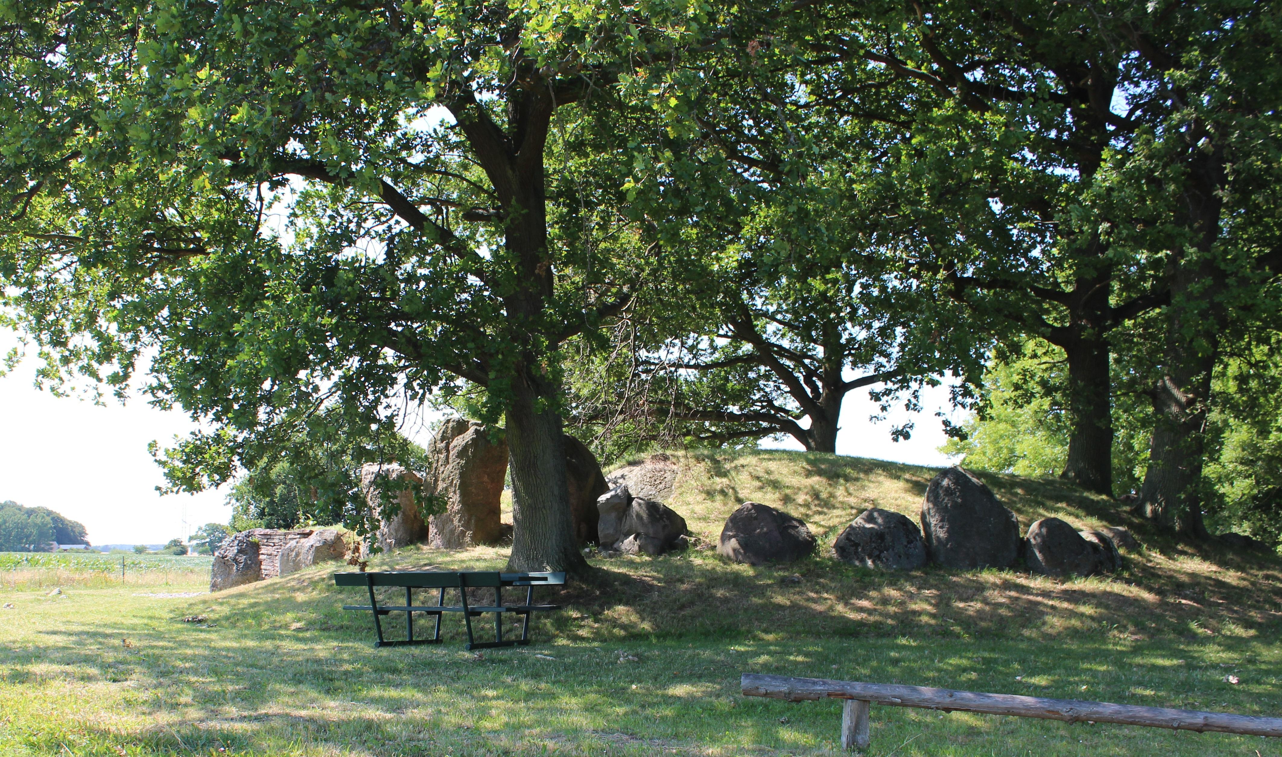 Back side of Kong Svends Høj (King Sweyn's Mound). Western Lolland, Denmark